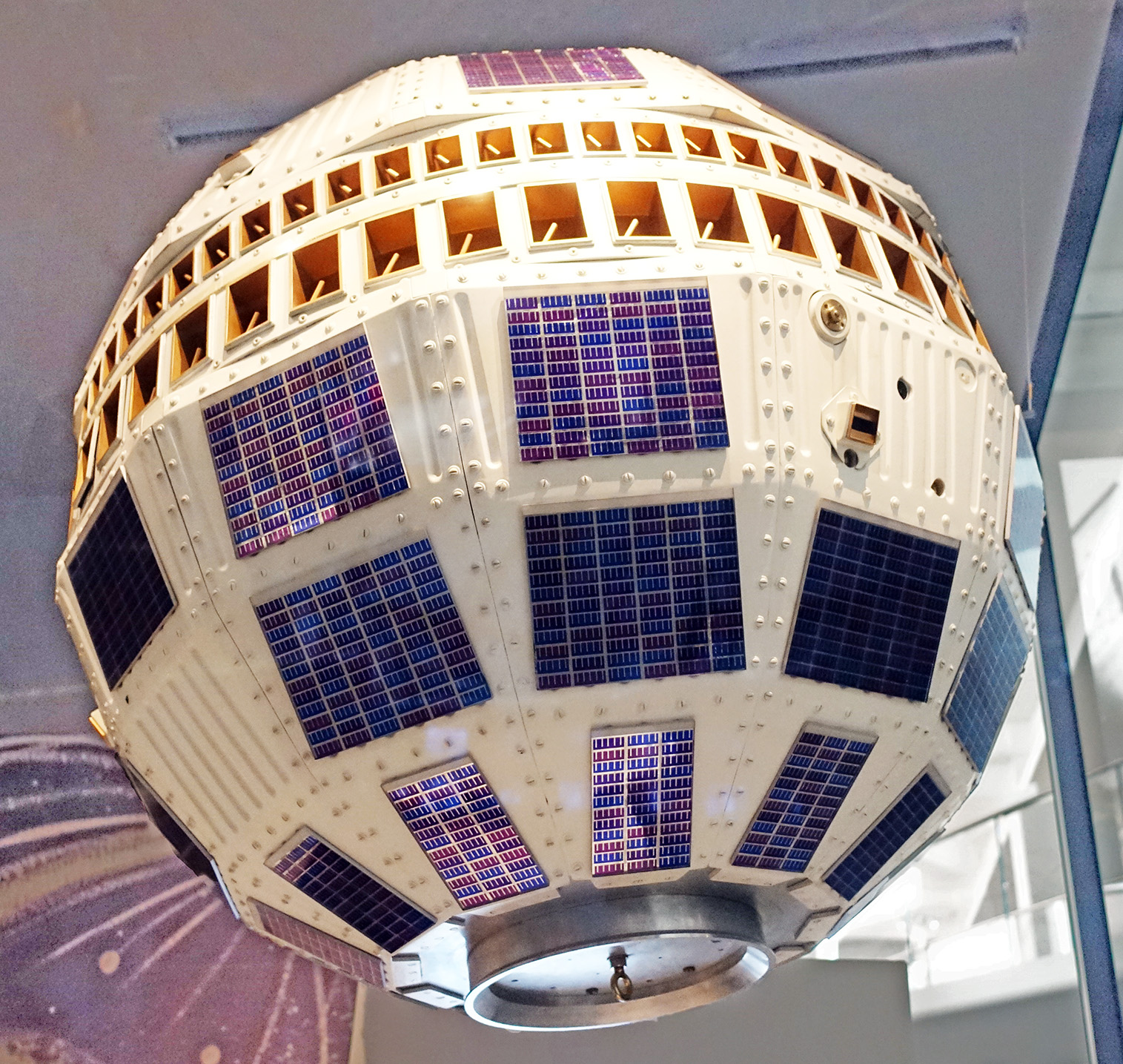 Telstar satellite in Science Museum, London.